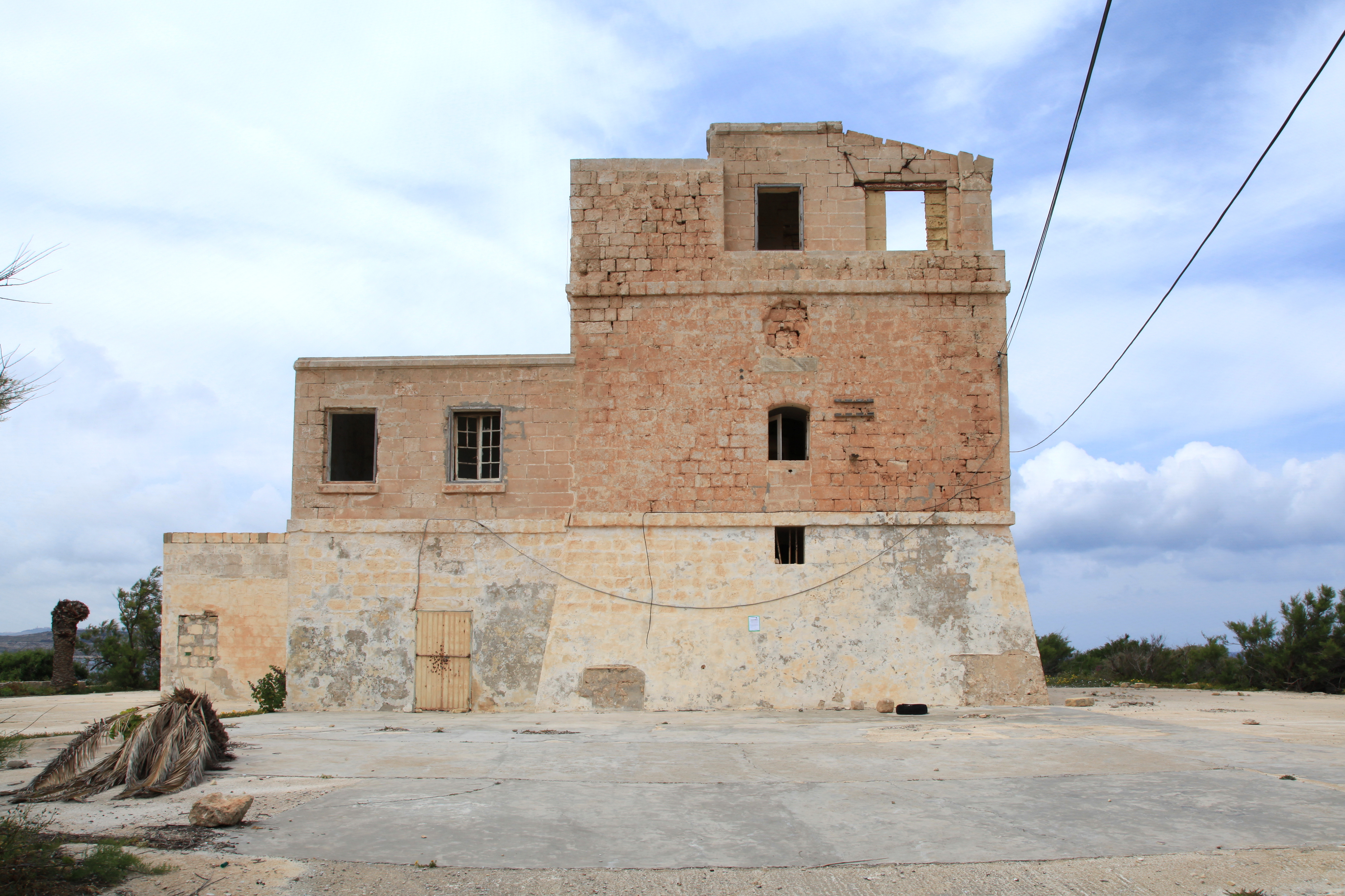 Armier Tower at Triq ir-Ramla tat-Torri l-Abjad in Mellieħa, Malta